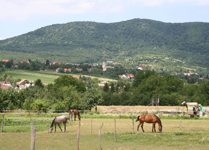 Horses near Hosszúhetény; Hungary